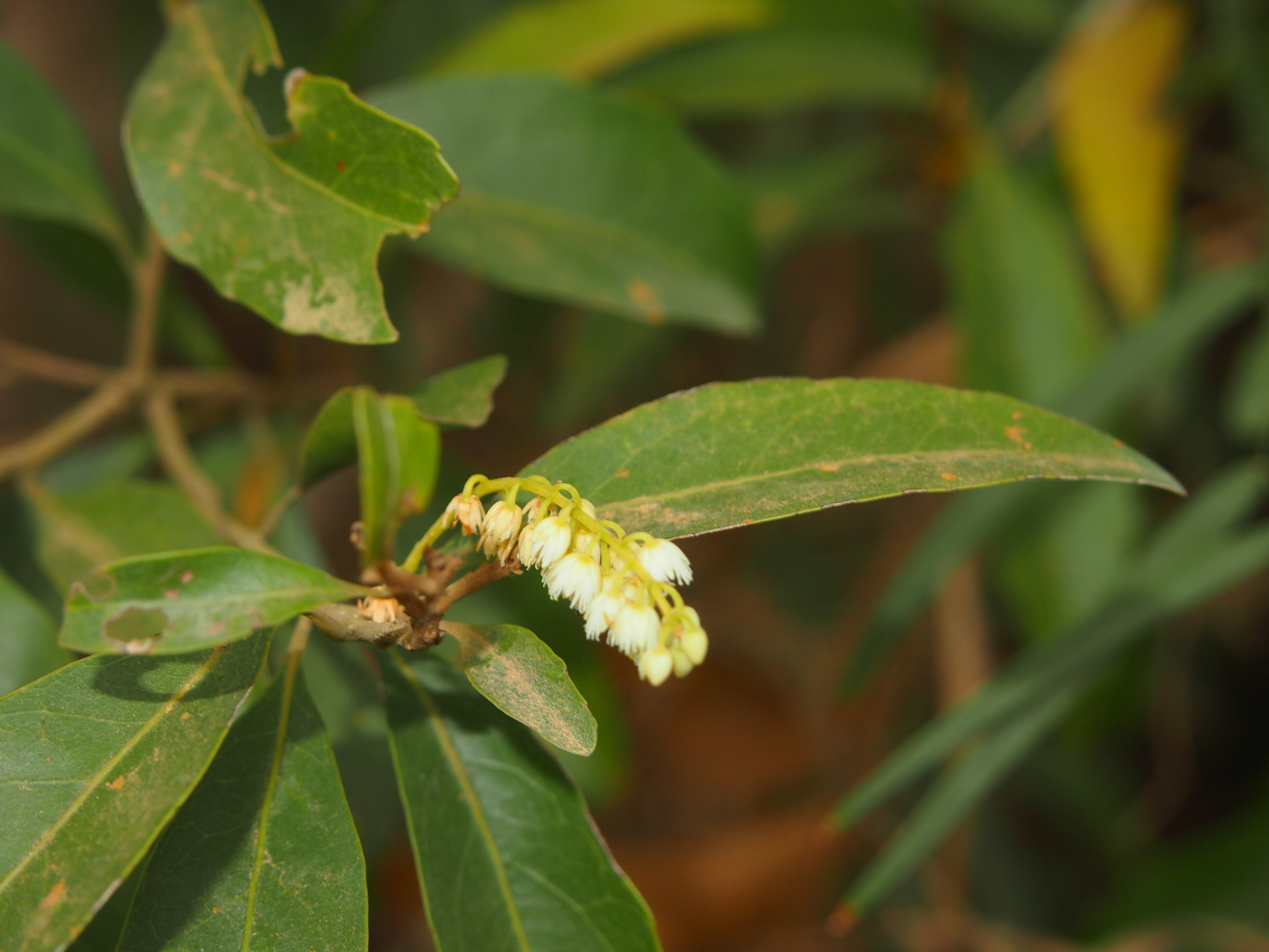 Elaeocarpus grandis flowers and foliage